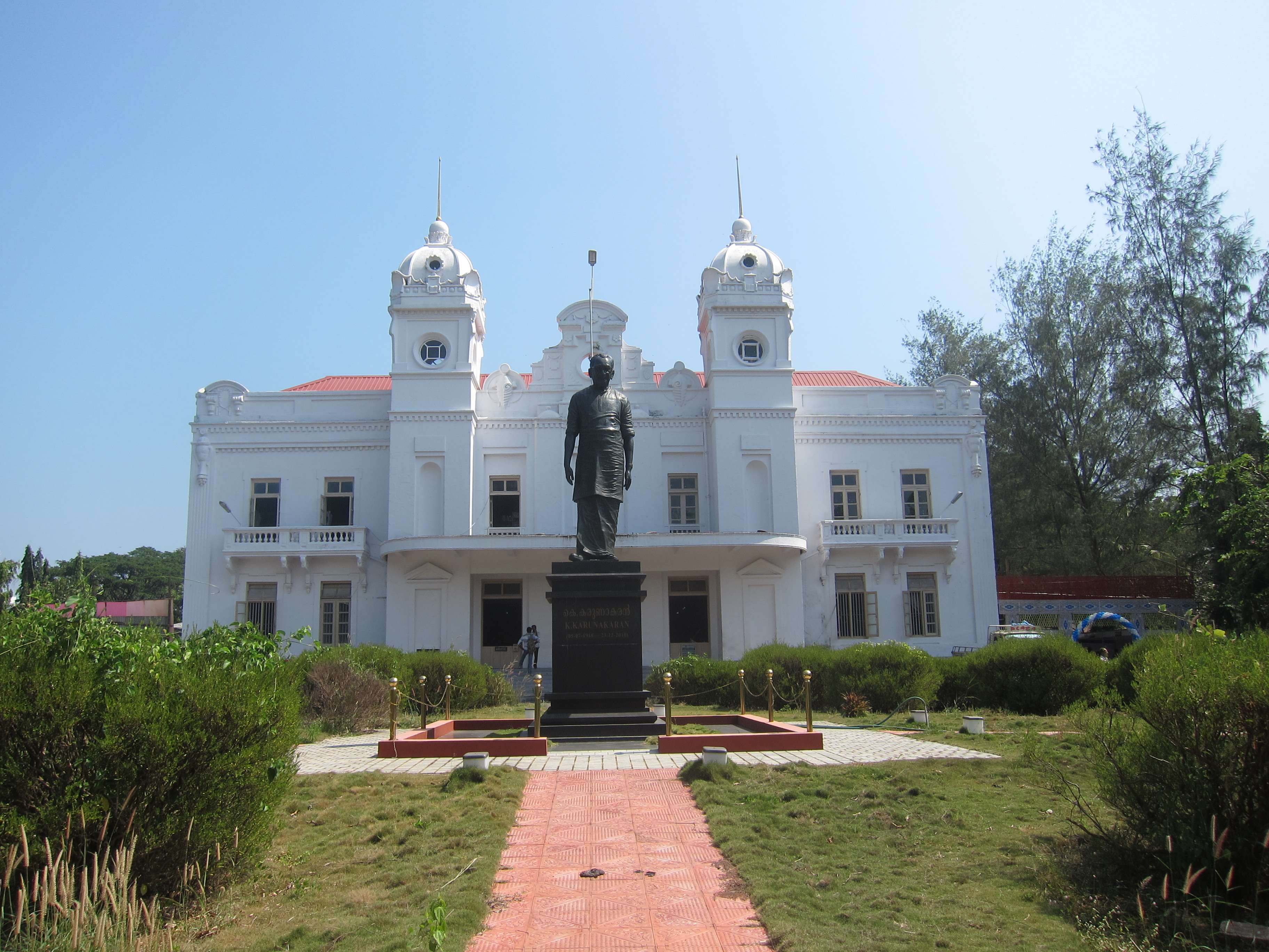 K. Karunakaran Smaraka Town Hall, Thrissur കെ. കരുണാകരൻ സ്മാരക ടൗൺ ഹാൾ, തൃശ്ശൂർ